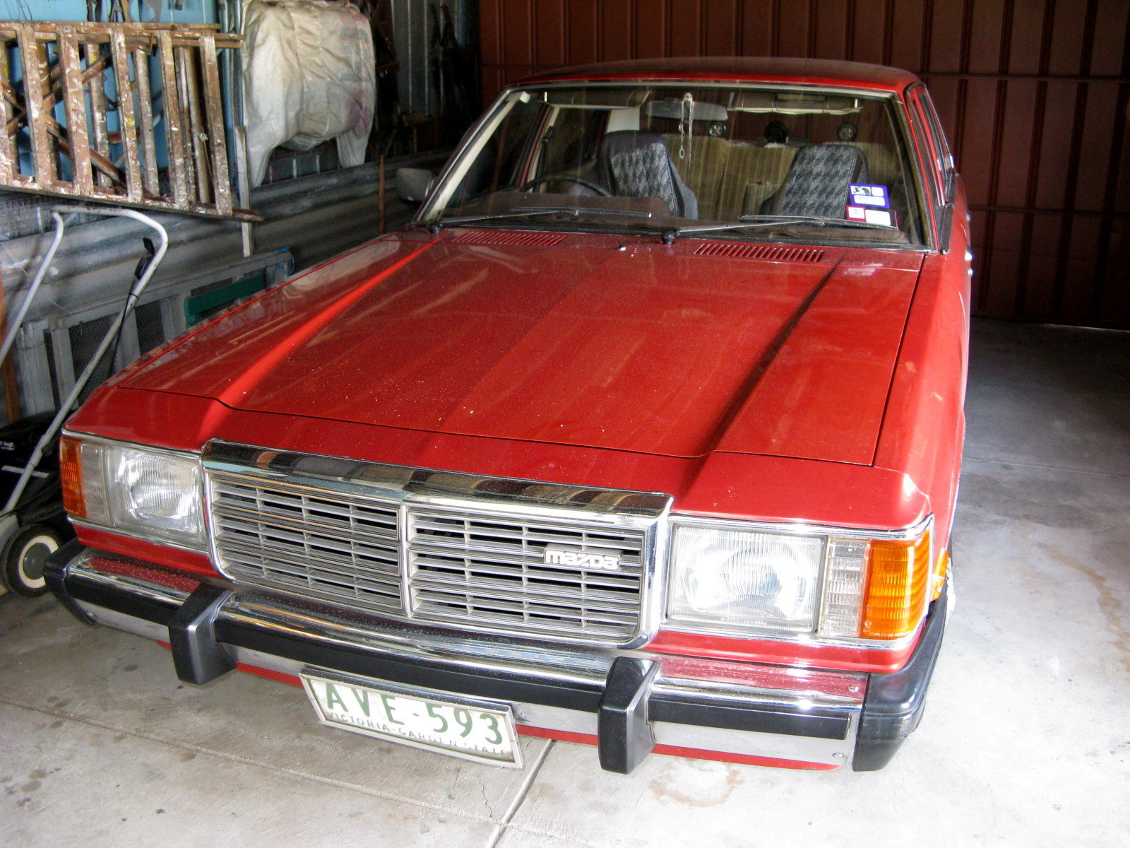 1980 Mazda 929L (LA4) Deluxe sedan. Photographed in Altona North, Victoria, Australia. Vehicle registration enquiry results Jurisdiction Victoria Registration AVE593 Chassis code LA4MS796408 Engine code H13258 Compliance date Not available Year of manufacture 1980